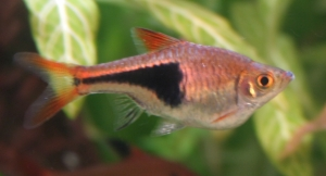 Harlequin rasbora, Trigonostigma heteromorpha